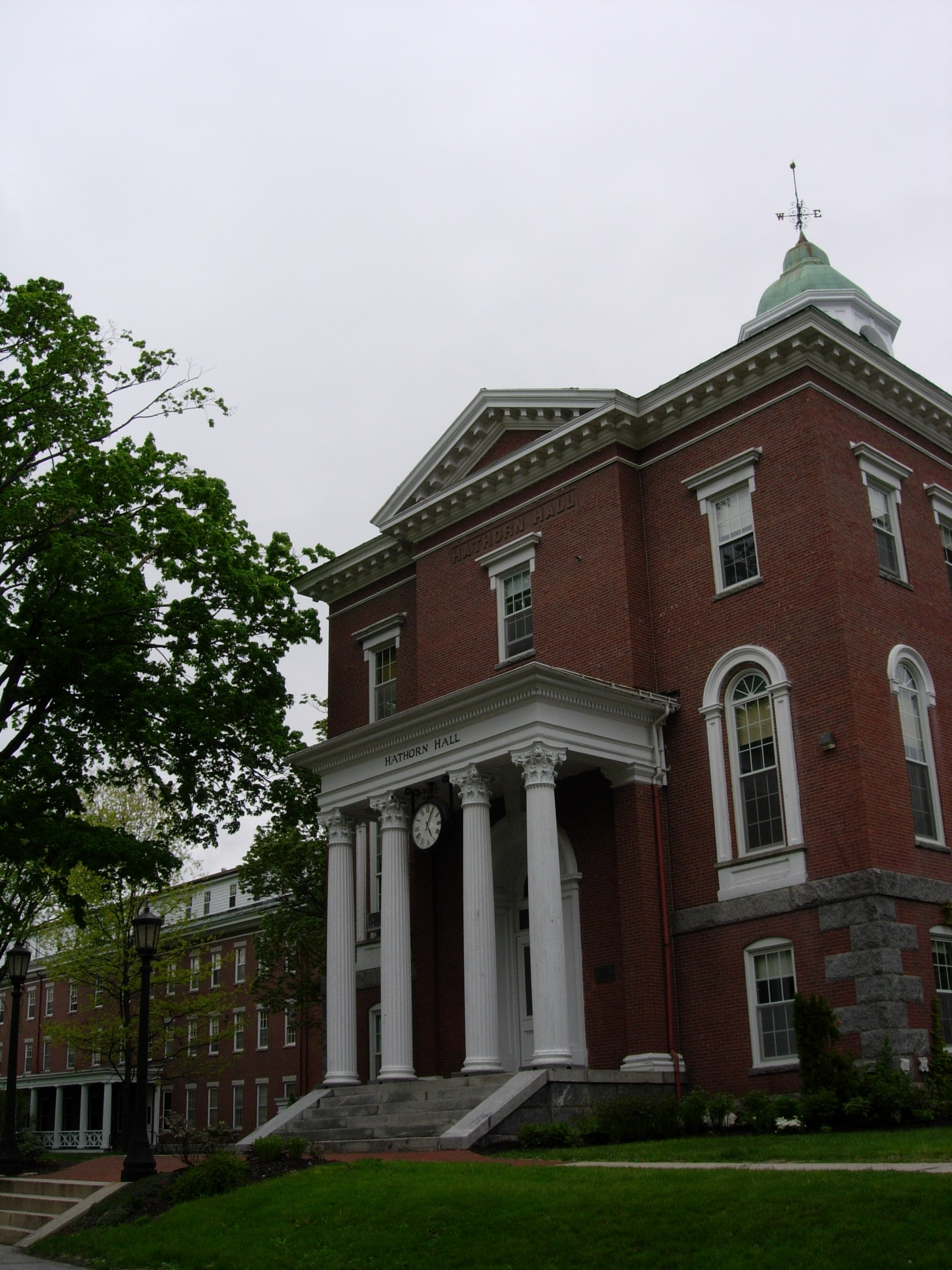 Hathorn Hall